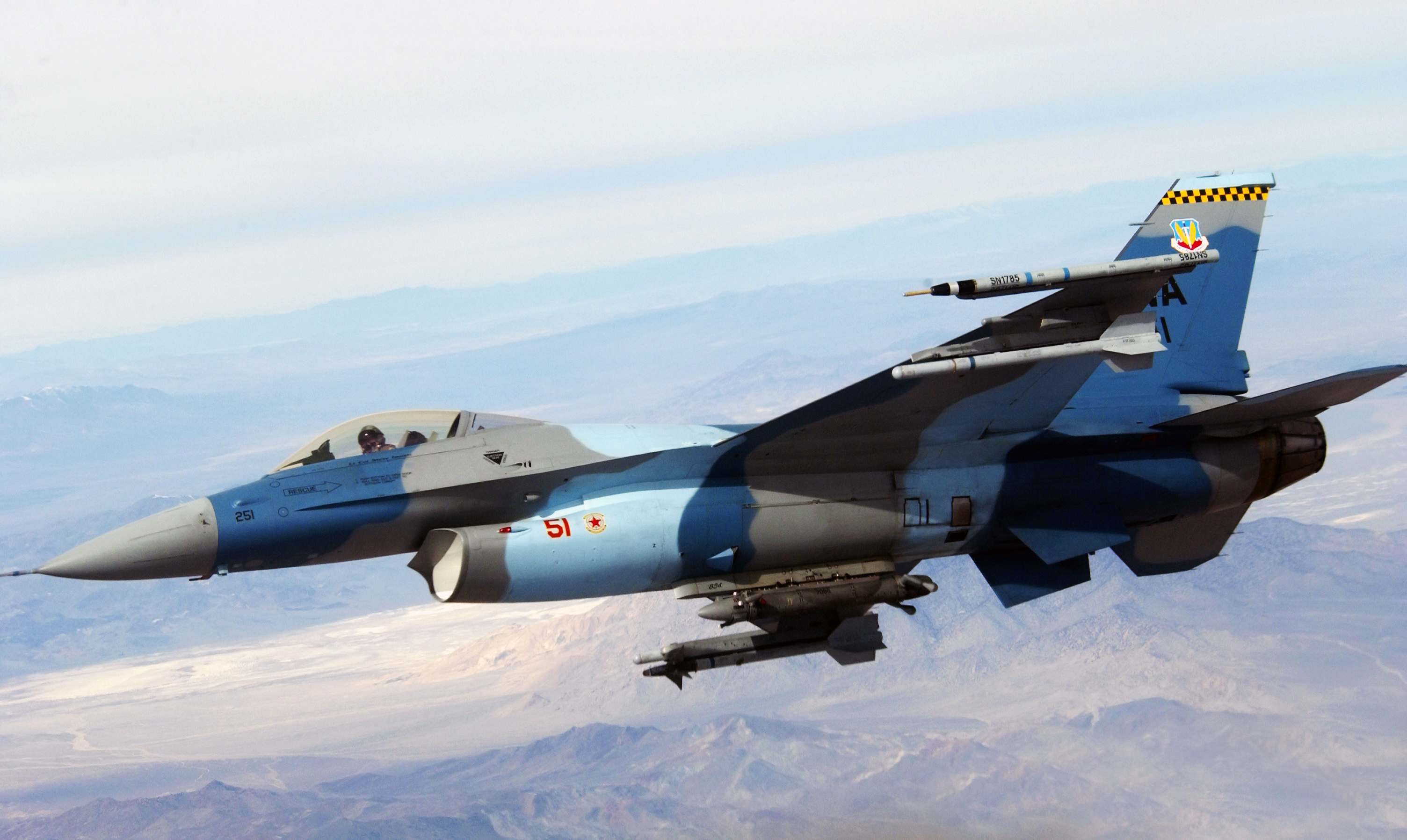 USAF F-16C aggressor aircraft being used for dissimilar combat training. Original photograph found at af.mil and edited for qualitative purposes. USAF Caption: NELLIS AIR FORCE BASE, Nev. (AFPN) -- An F-16 Fighting Falcon heads out to a range Jan. 31 during Red Flag 06-1 being held here Jan. 21 through Feb. 18. Red Flag tests aircrews' war-fighting skills in realistic combat situations. Aircraft fly missions day and night at the nearby Nevada Test and Training Range simulating an air war. Along with the Air Force, units from the Army, Navy, Marine Corps, United Kingdom and Australia are participating. The F-16 is with the 64th Aggressor Squadron. (U.S. Air Force photo by Master Sgt. Kevin J. Gruenwald)